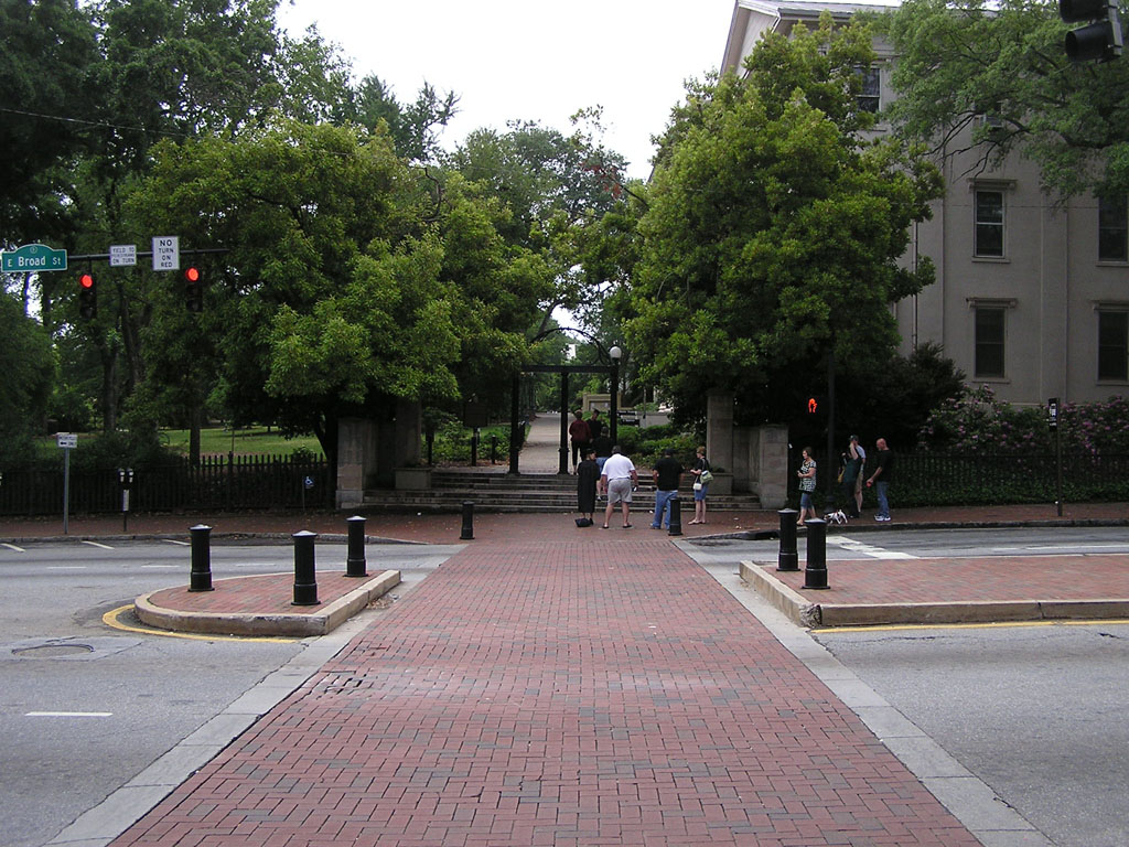 Photograph taken by Richard Chambers of a street scene in Athens. Image taken on Sunday morning, May 11, 2008. This image taken on the corner of College Avenue and Broad Street, looking across Broad Street through the arches onto North Campus of the University of Georgia. North Campus is the oldest part of the university and is the site of the original Franklin College which became the University of Georgia.